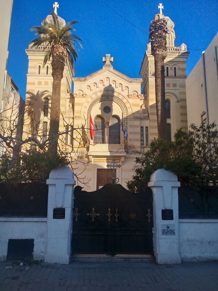 Tunis, Tunisia